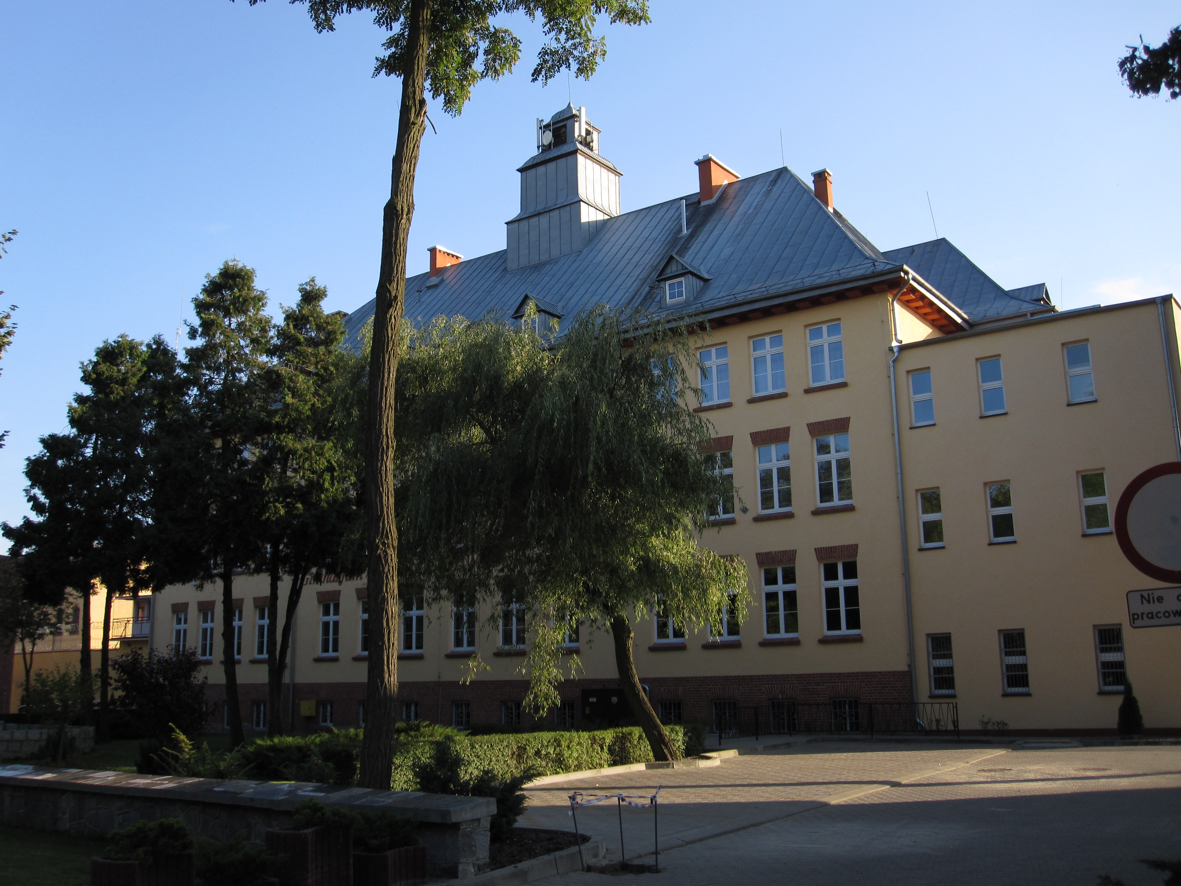 Działdowo - Middle school No. 1